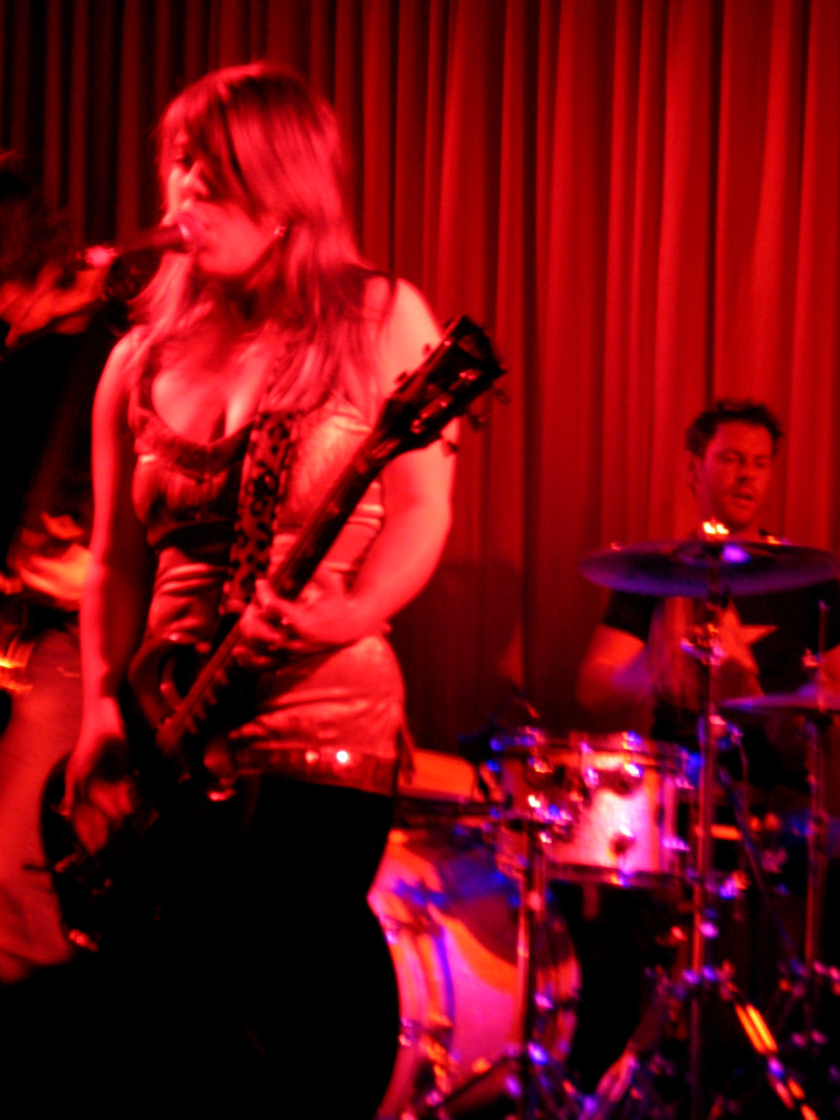 Singer/guitar player Louise Post (left) and drummer Kellii Scott (right) of the band Veruca Salt.